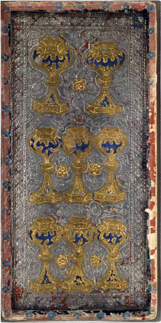 Eight of Cups from the Visconti tarot deck.